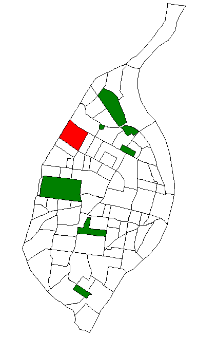 Map of St. Louis neighborhood #50